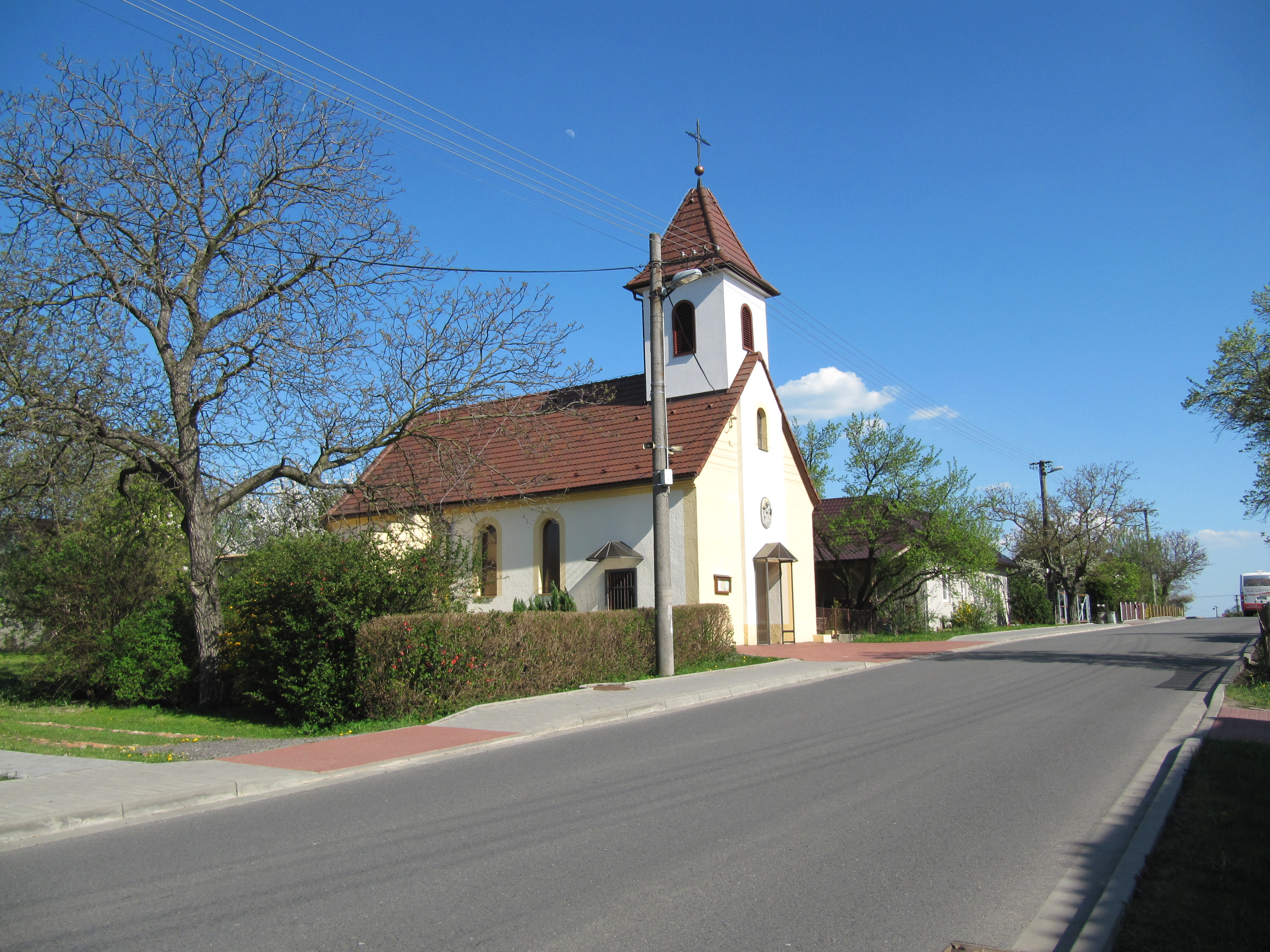 Zlín, Czech Republic, part Salaš. Chapel of Our Lady of the Rosary.